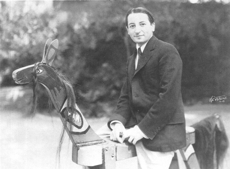 Publicity photograph of the Russian-American musicologist Nicolas Slonimsky (1894–1995). No copyright or copyright renewal information could be found.